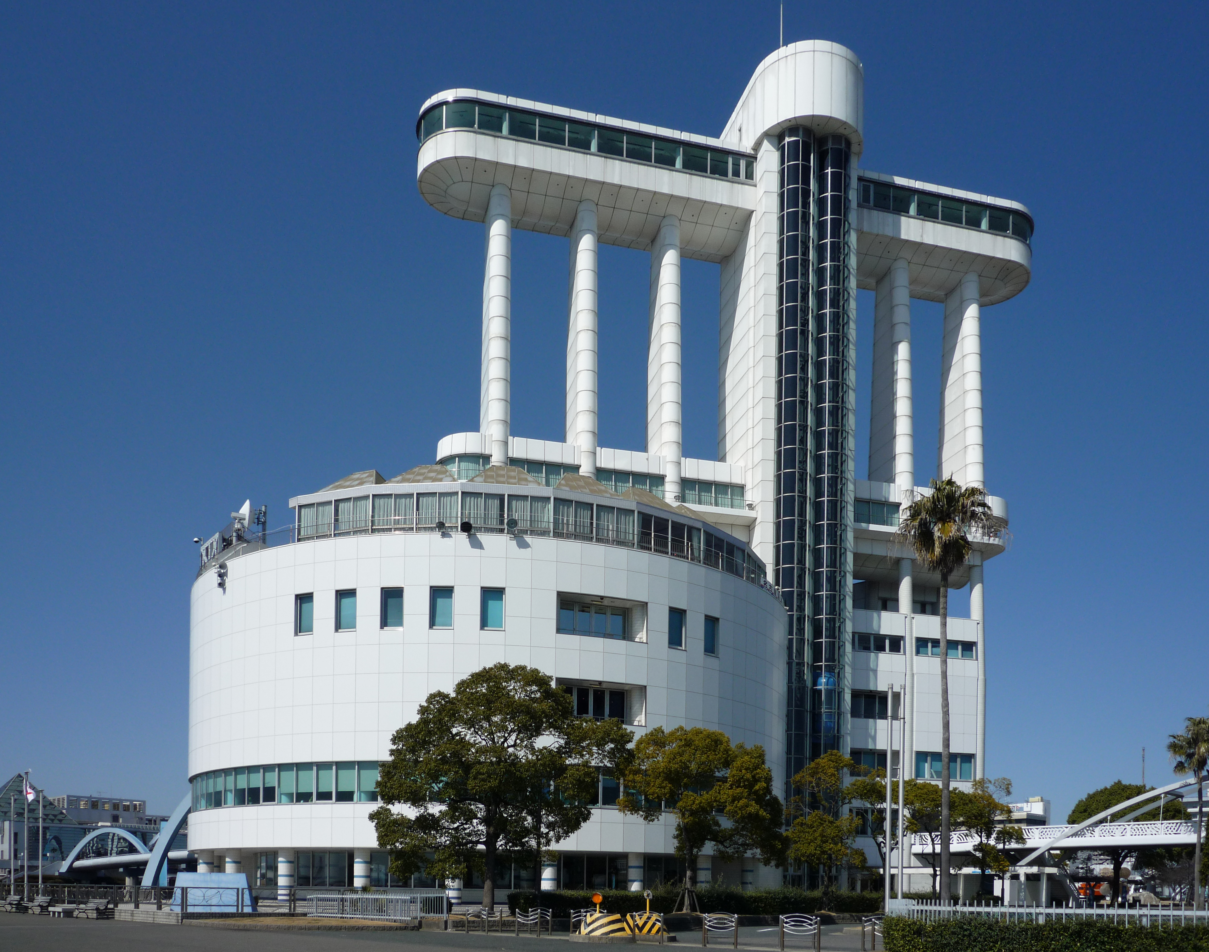 Nagoya Port Building in Nagoya, Aichi, Japan